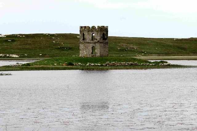 Loch Scolpaig. The tower is a 19th Century folly built on the remains of a broch.